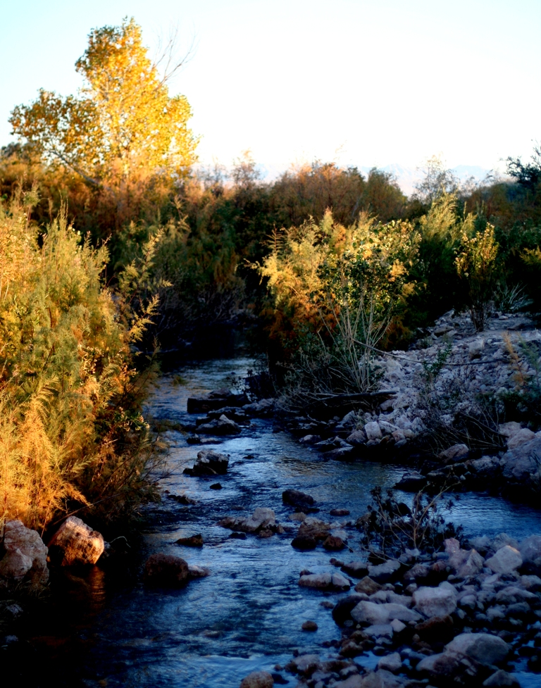 A view of the Muddy River, looking south at the Bowman Reservoir Road during late fall.